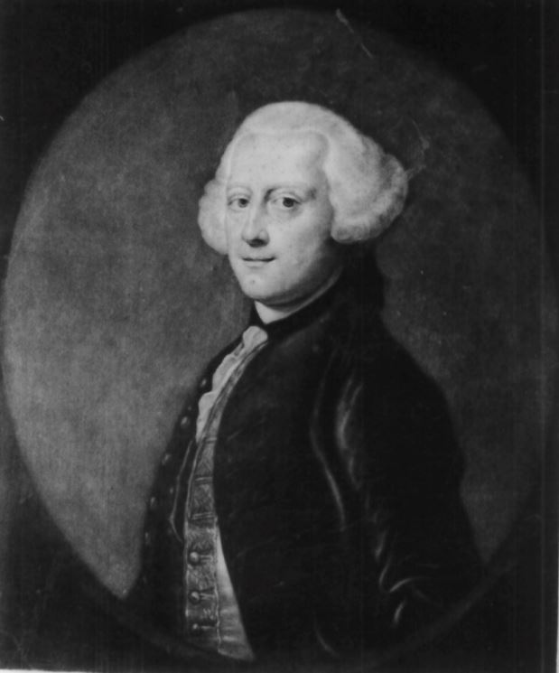 A photo of a print of James Dawkins, held at Abingdon School